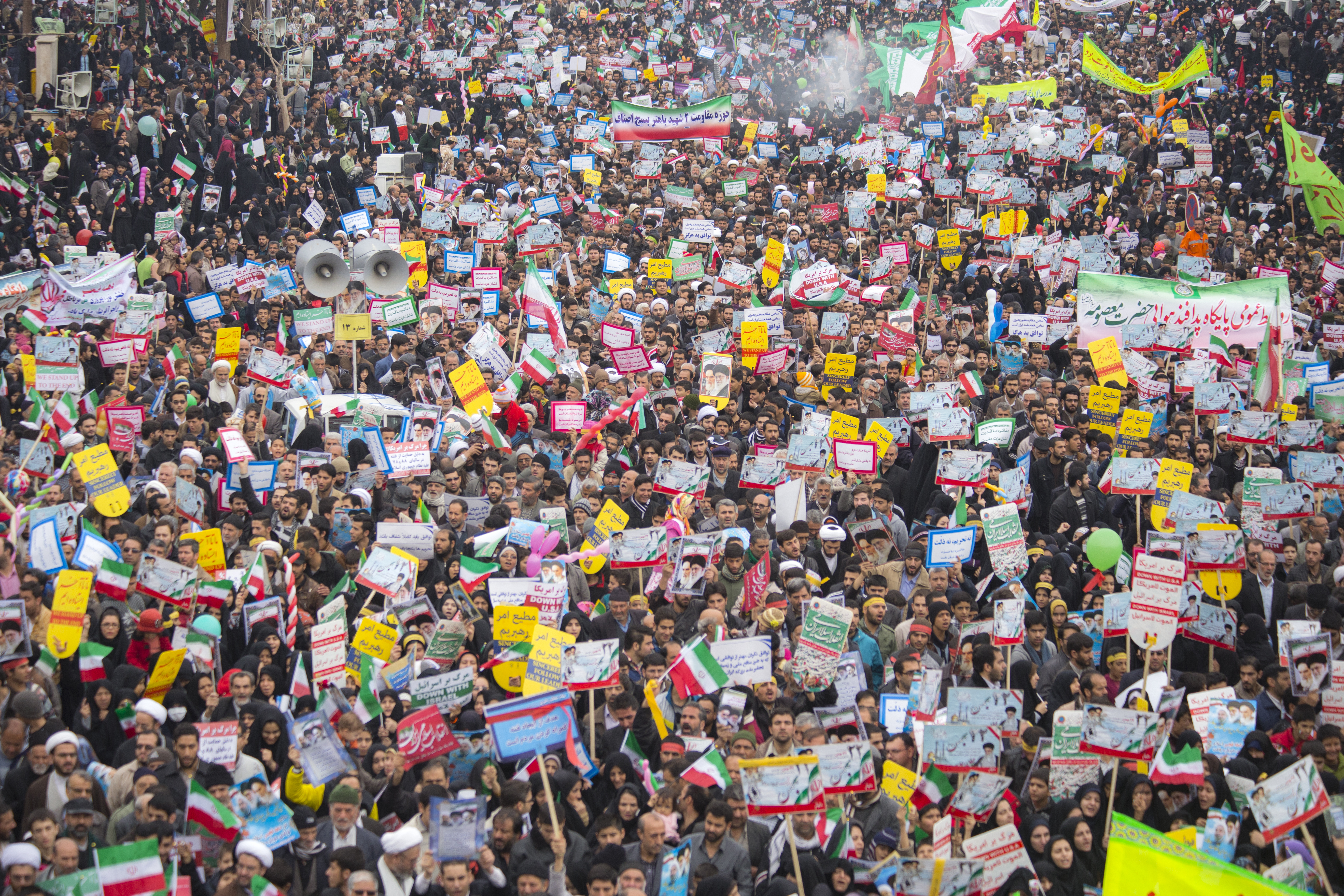 The anniversary of Islamic revolution is celebrated on 11 February 1979 and Iranian marches toward Azadi Tower. This political celebration held on the last day of Fajr decade.